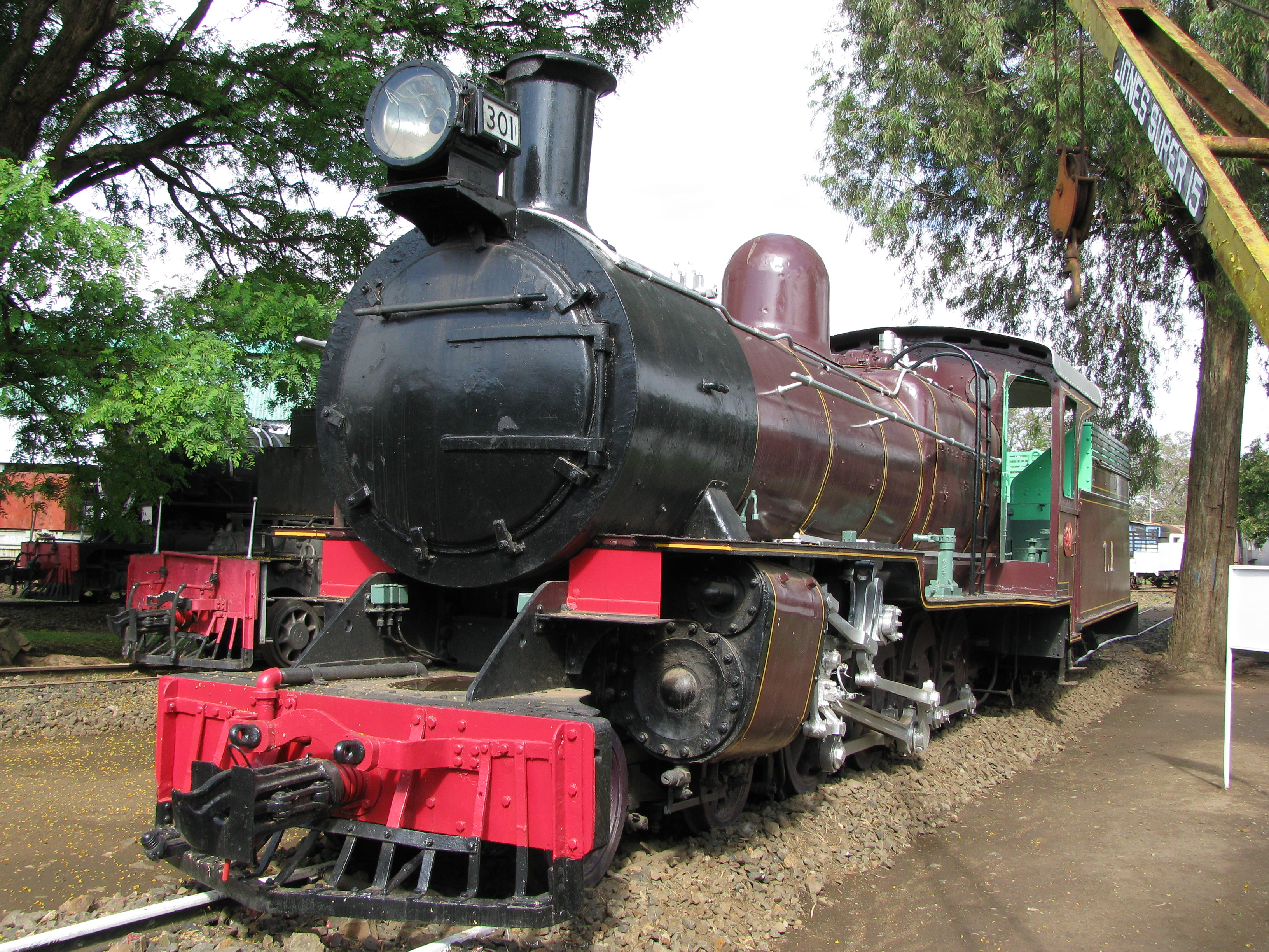 301 is a 4-8-0 built by Beyer Peacock (same builder as the mighty Garratts) and was used on the erstwhile Tanganyika Railways. (now Tanzania Railways). Her subsequent number was EAR 2301. (Oct/ Nov 2010)